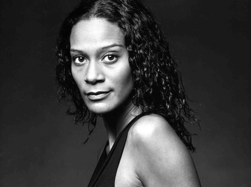 Foto de Inday Ba